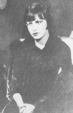 Carmen Valdez- actriz argentina